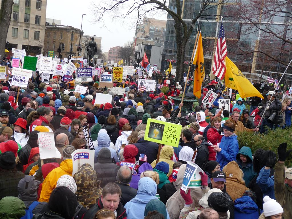 Wisconsin 2011 Tax Day Tea Party Rally